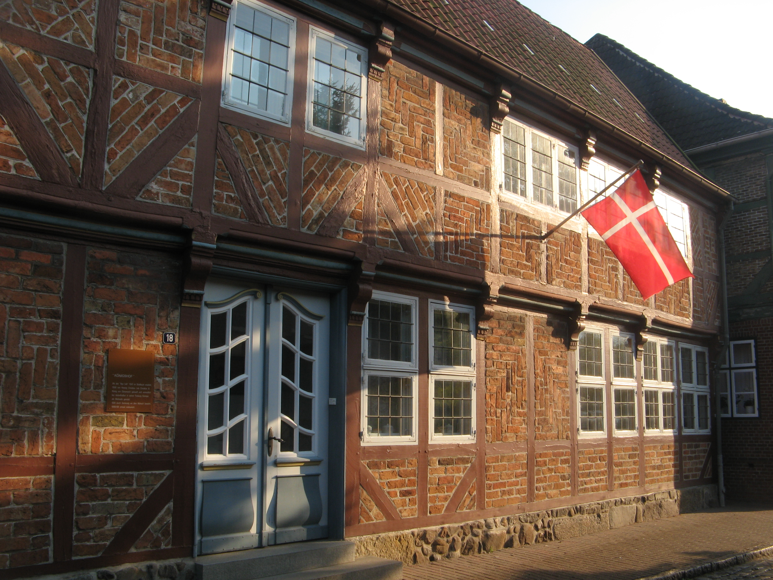 Krempe "Königshof" ("Kings court"), Steinburg, Germany